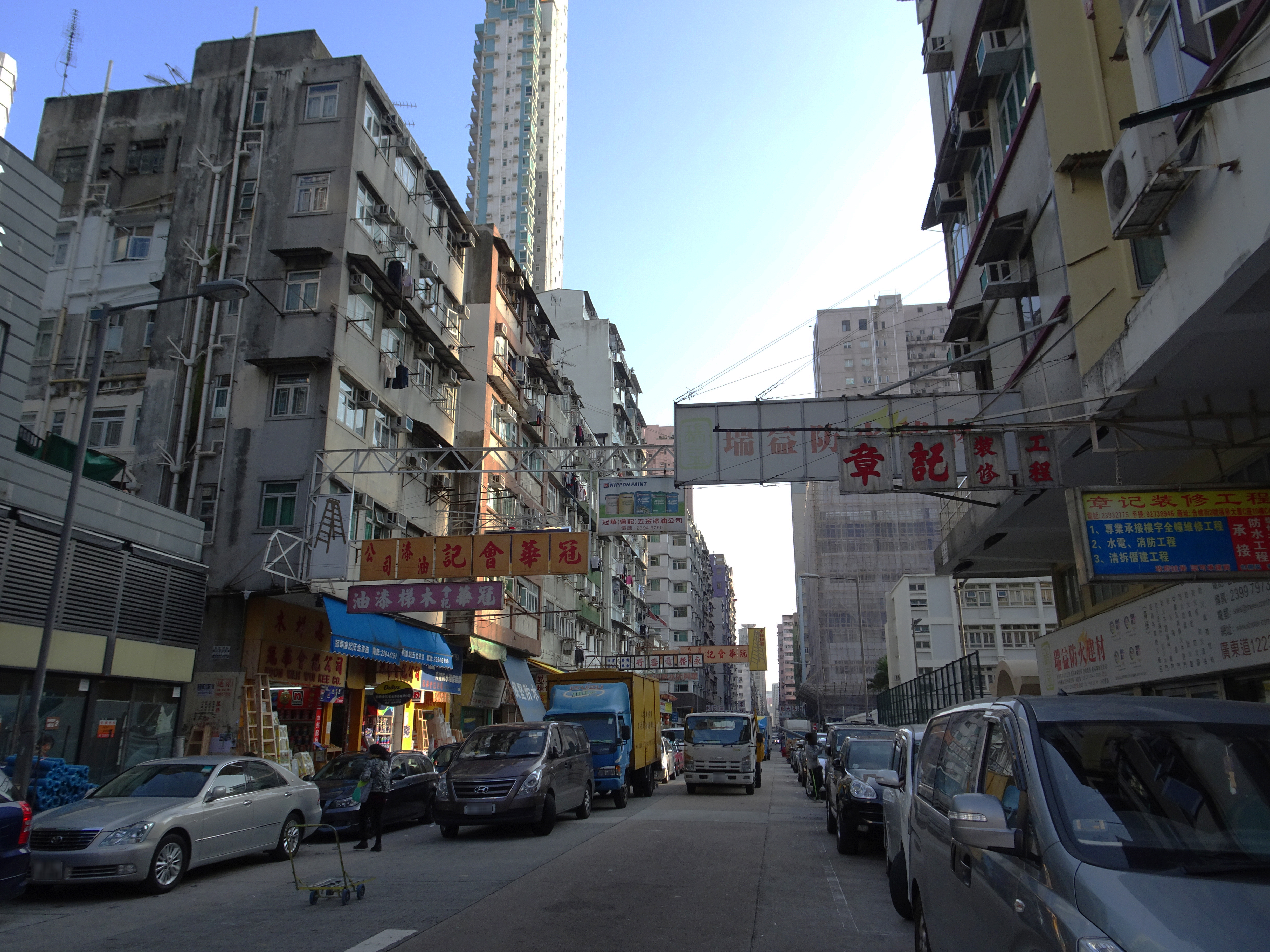 Canton Road in Prince Edward, Hong Kong.